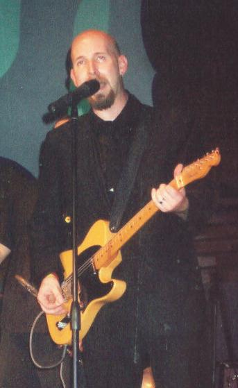 The O.C. Supertones frontman, Matt Morginsky in the middle of a concert in Mayagüez, Puerto Rico; Camera used: Canon SureShot 80Tele